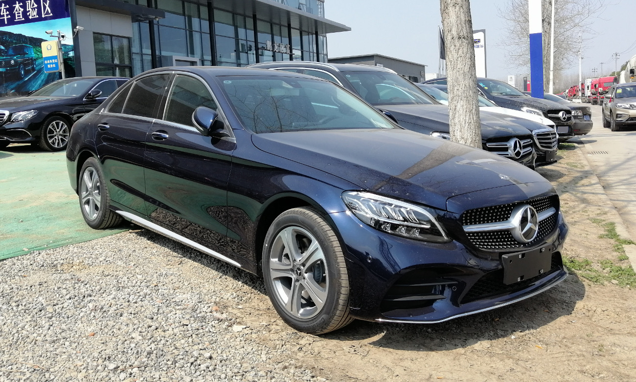 Mercedes-Benz C-Class V205 facelift photographed in Hefei, Anhui province, China.